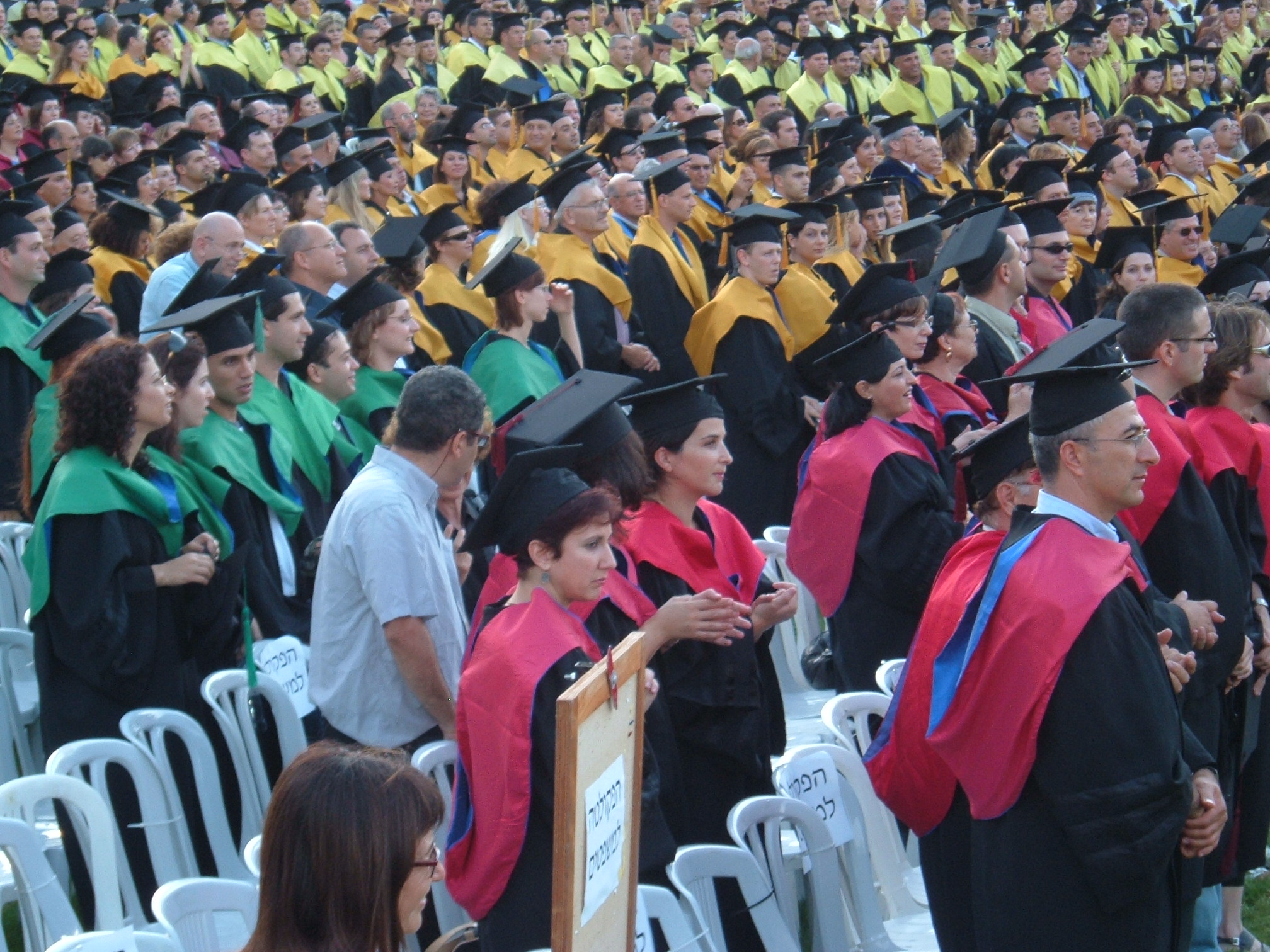 Graduates of Masters degree in the university of Haifa wearing academic dress